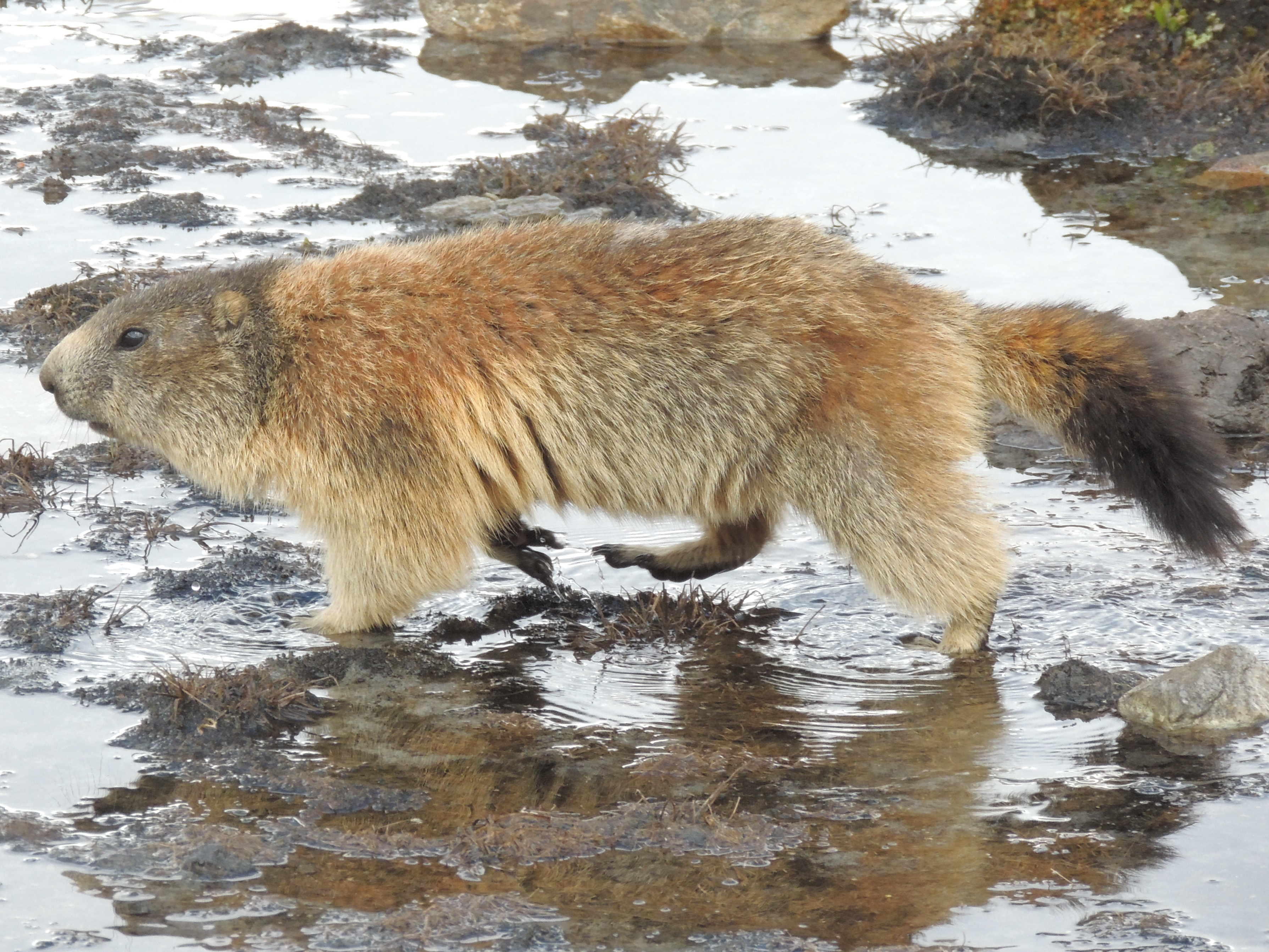 Alpine Marmot at Großvenediger, Austria, June 2016